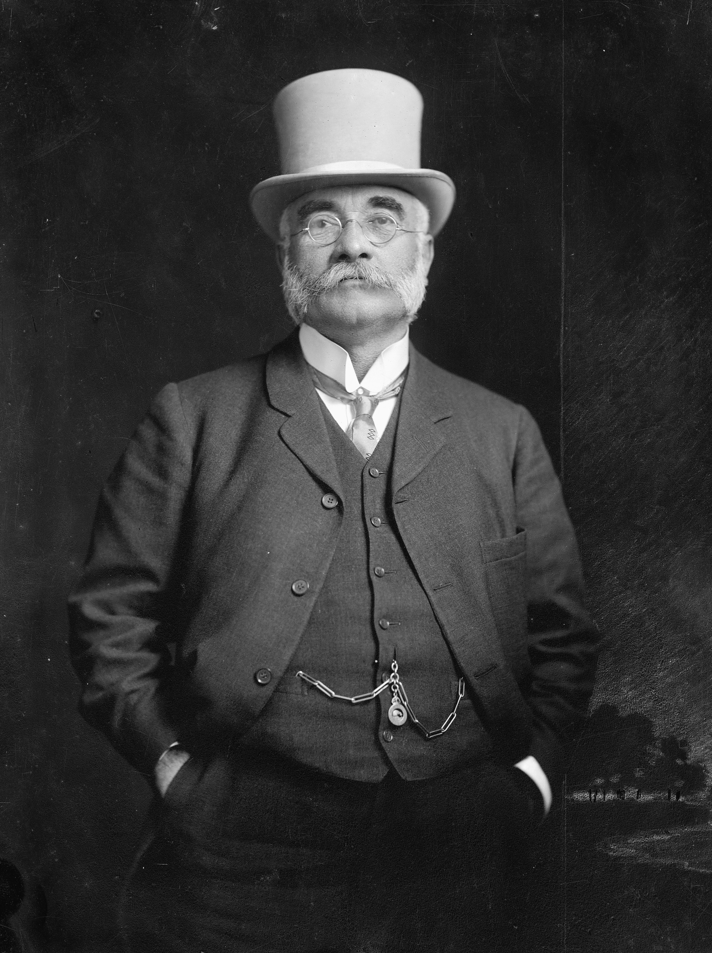 Portrait of John Vigor Brown